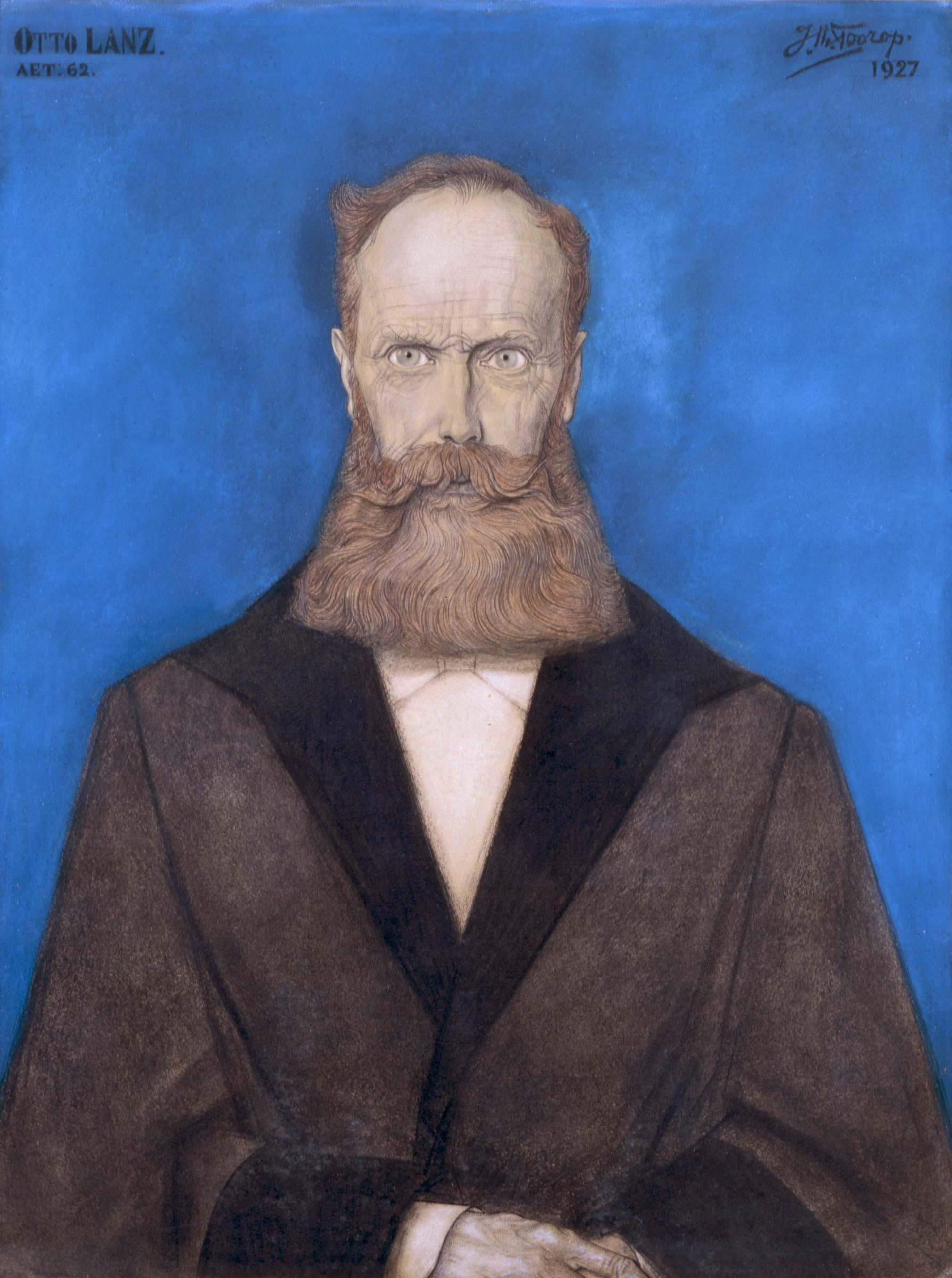 Prof. Otto Lanz painted by Jan Toorop